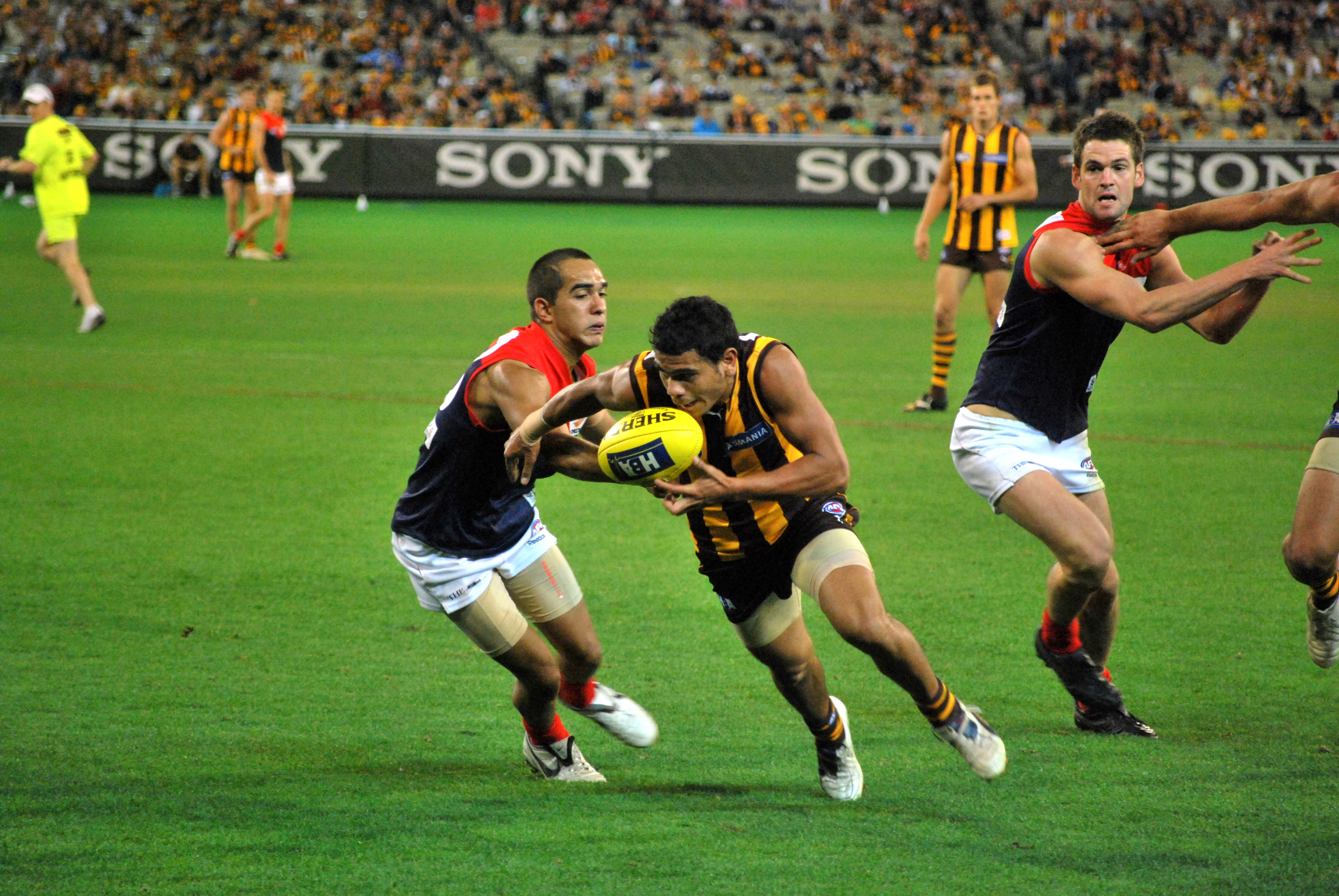 Cyril Rioli in Hawthorn v Melbourne MCG Round 9